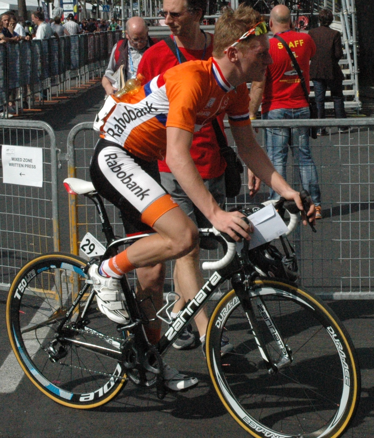 2013 UCI Road World Championships – Men's junior road race